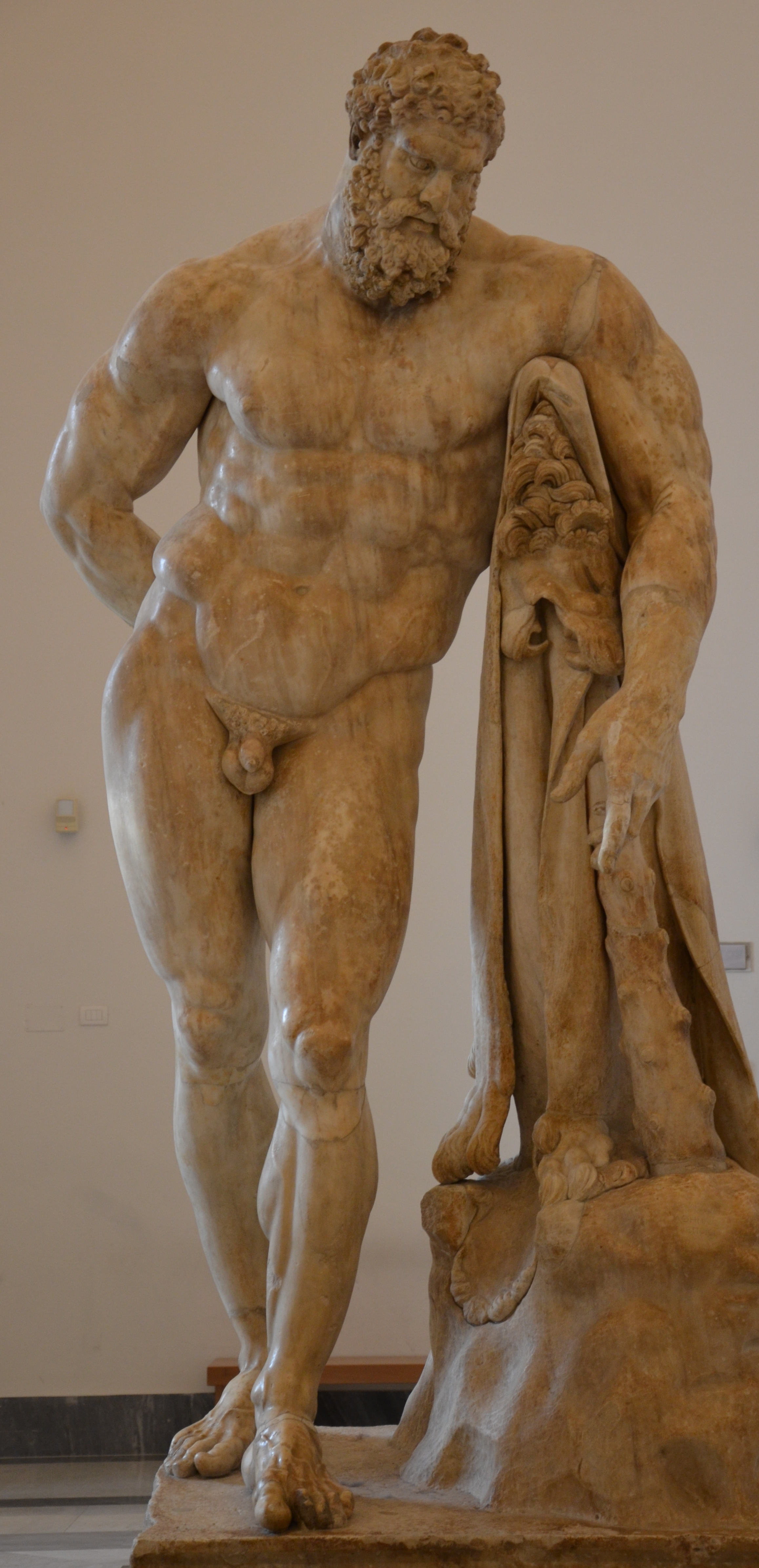 Farnese Hercules, an early third century AD Roman copy from the original by Lysippos made for the Baths of Caracalla in Rome, Naples National Archaeological Museum